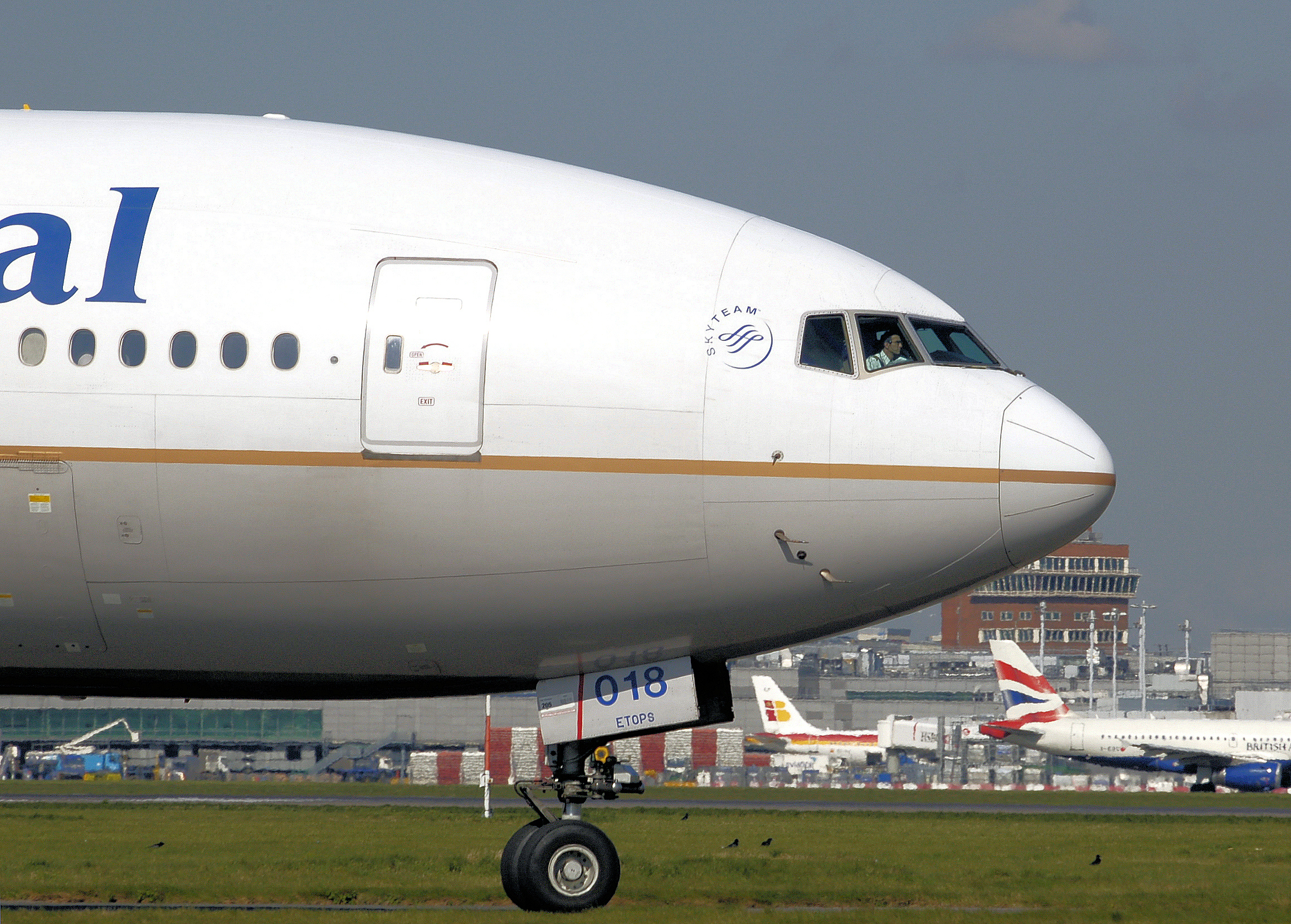 Continental Airlines Boeing 777-200/ER (N37018) taxis to the take off point at London Heathrow Airport, England. (The background is “wobbly” due to heat haze.)